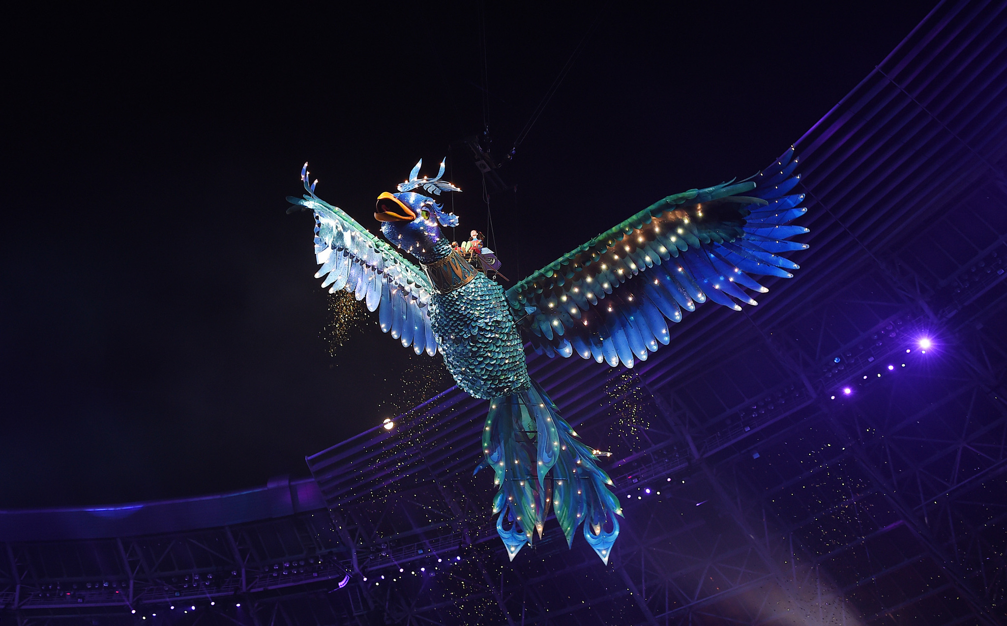 Opening Ceremony of 2017 Islamic Solidarity Games